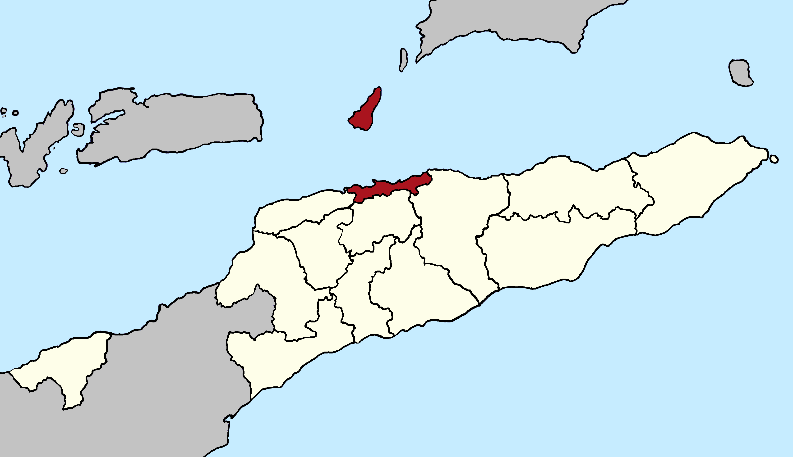 Locator map of Dili municipality since 2015, East Timor